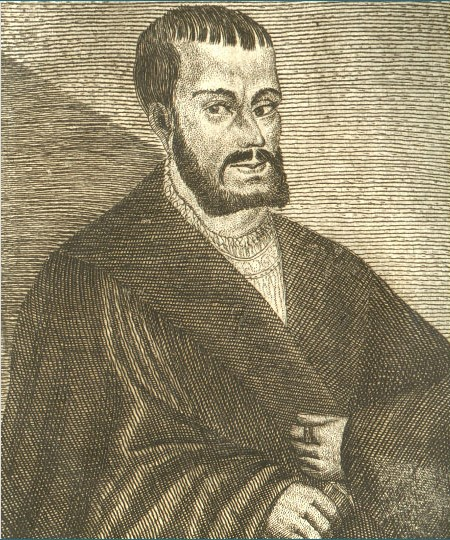 George Sabinus - the German poet, professor of the philology, the first rector of university in Konigsberg. Illustration from the book Acta Borussica, the National museum of Lithuania.